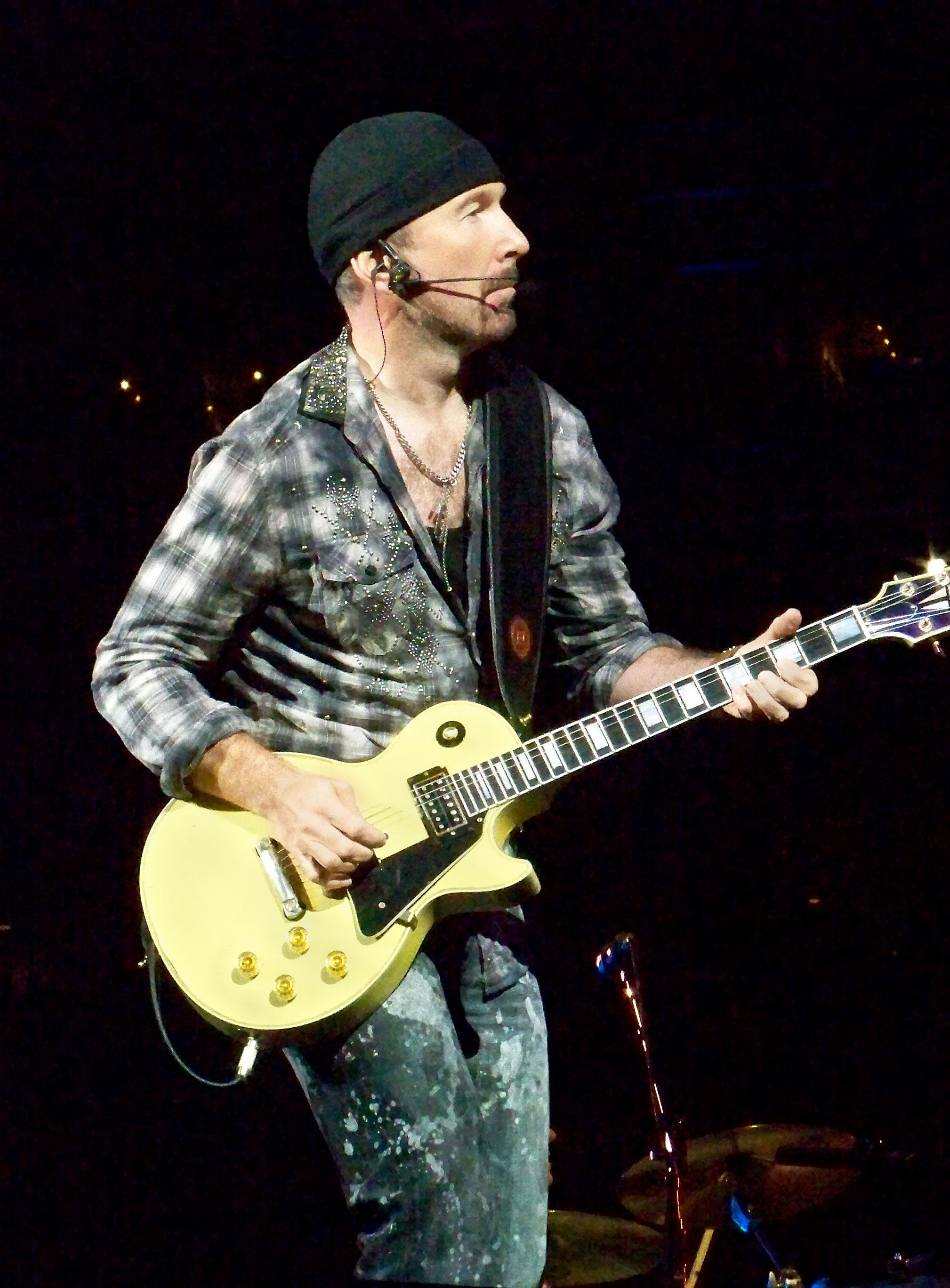 The Edge performing with U2 at Gillette Stadium, Foxboro, MA 9/21/2009